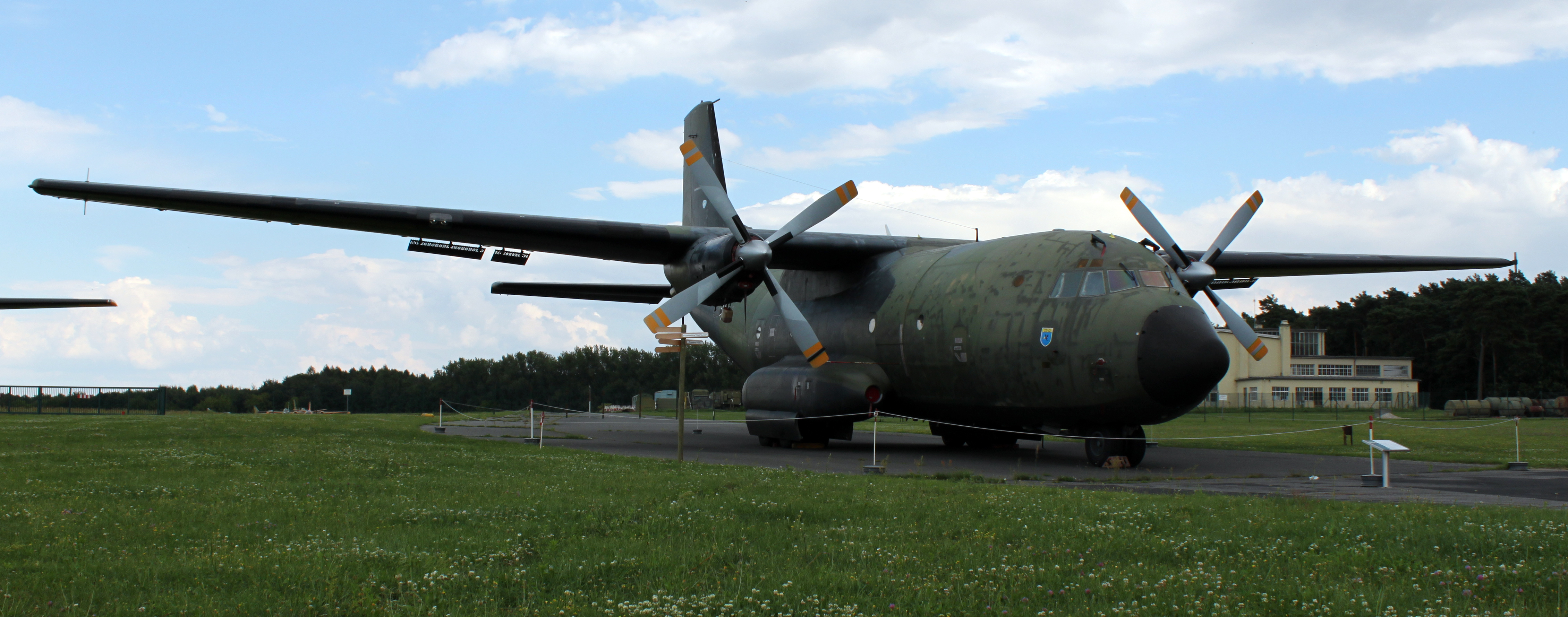 Tactical transport aircraft C-160 D Transall in the Air Force Museum Berlin-Gatow